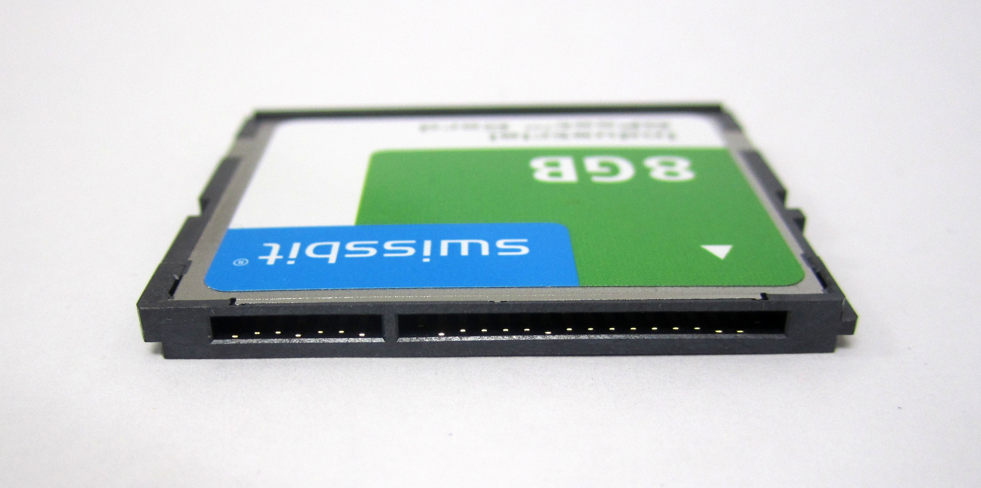 Pins of a CFast card.